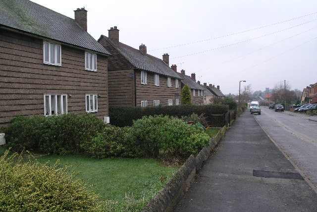 Airey Houses Prior Mede Harthill. Airey houses such as those pictured were built shortly after the Second World War under the Temporary Housing Programme 1944-49. The houses, which were constructed from pre-cast concrete panels, were meant to provide temporary accommodation but were often built to such a high stadard that many of them survive to this day.